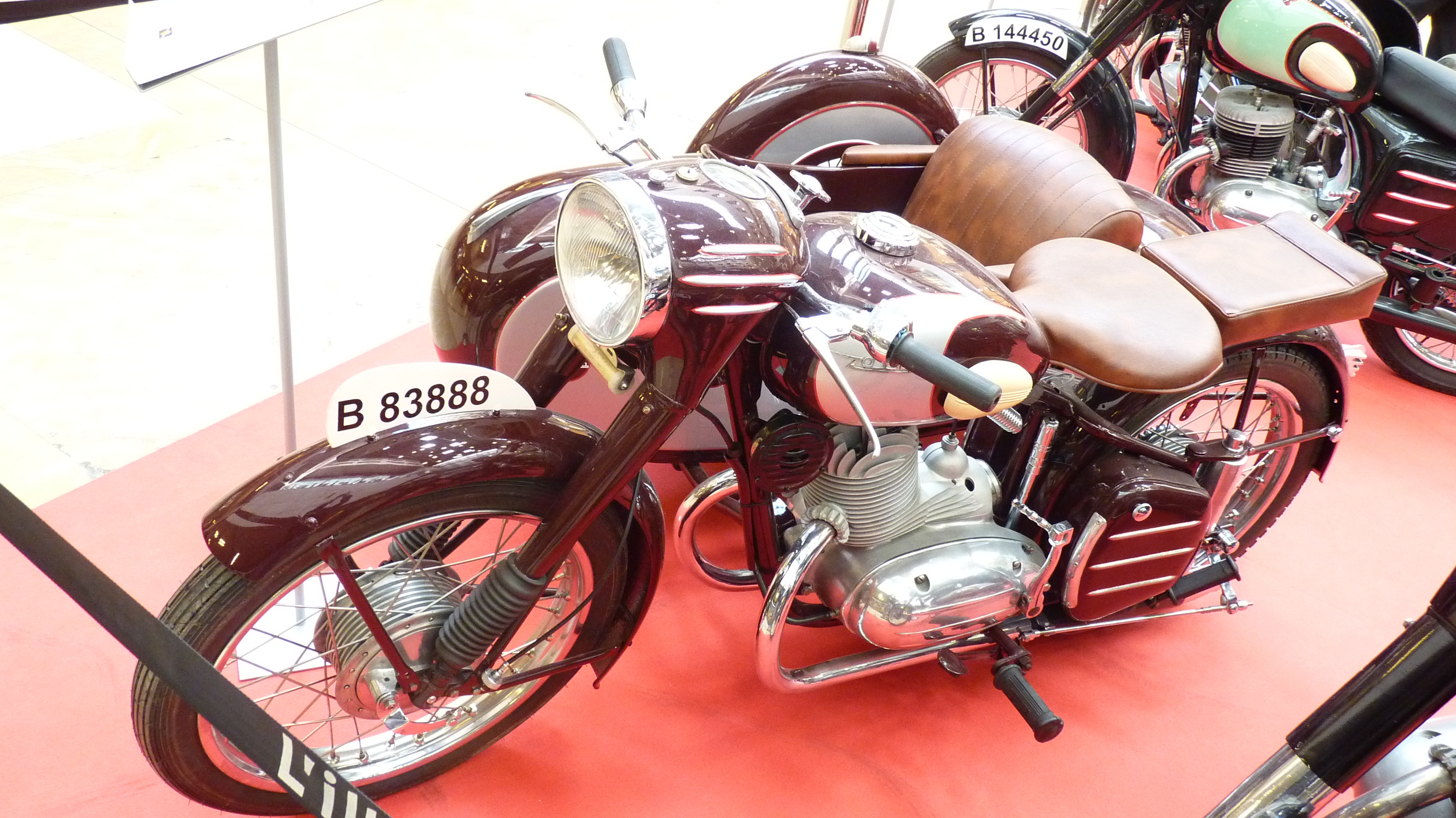 Derbi 250 First Series with Sidecar by 1950. Engine: 9 CV